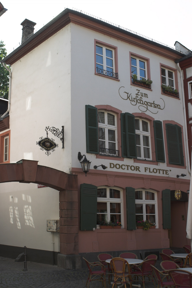 Birthplace of the writer Kathinka Zitz-Halein in the old section of Mainz by the Kirschgarten